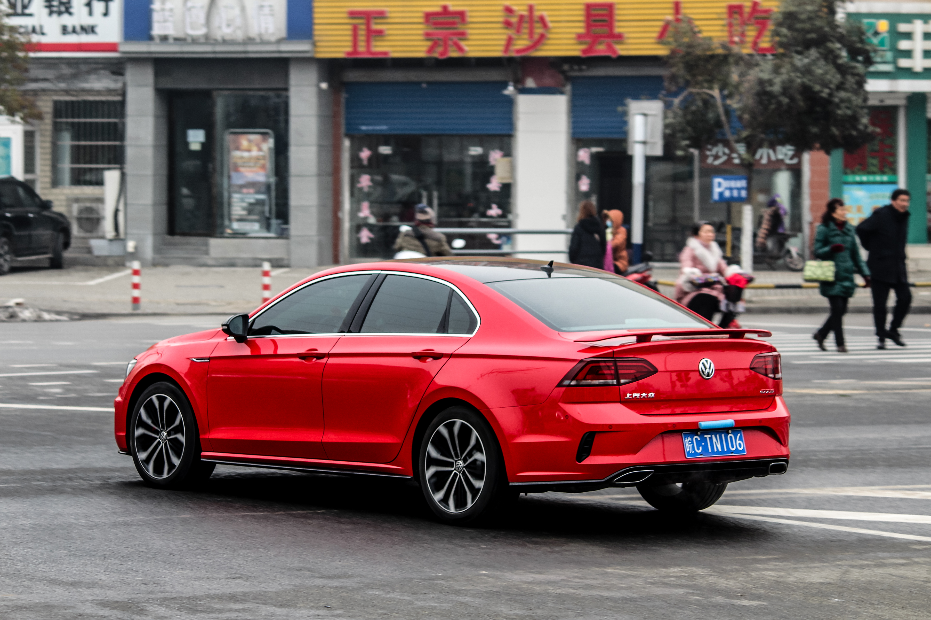 2017 Volkswagen Lamando GTS 02 in Bengbu Anhui China